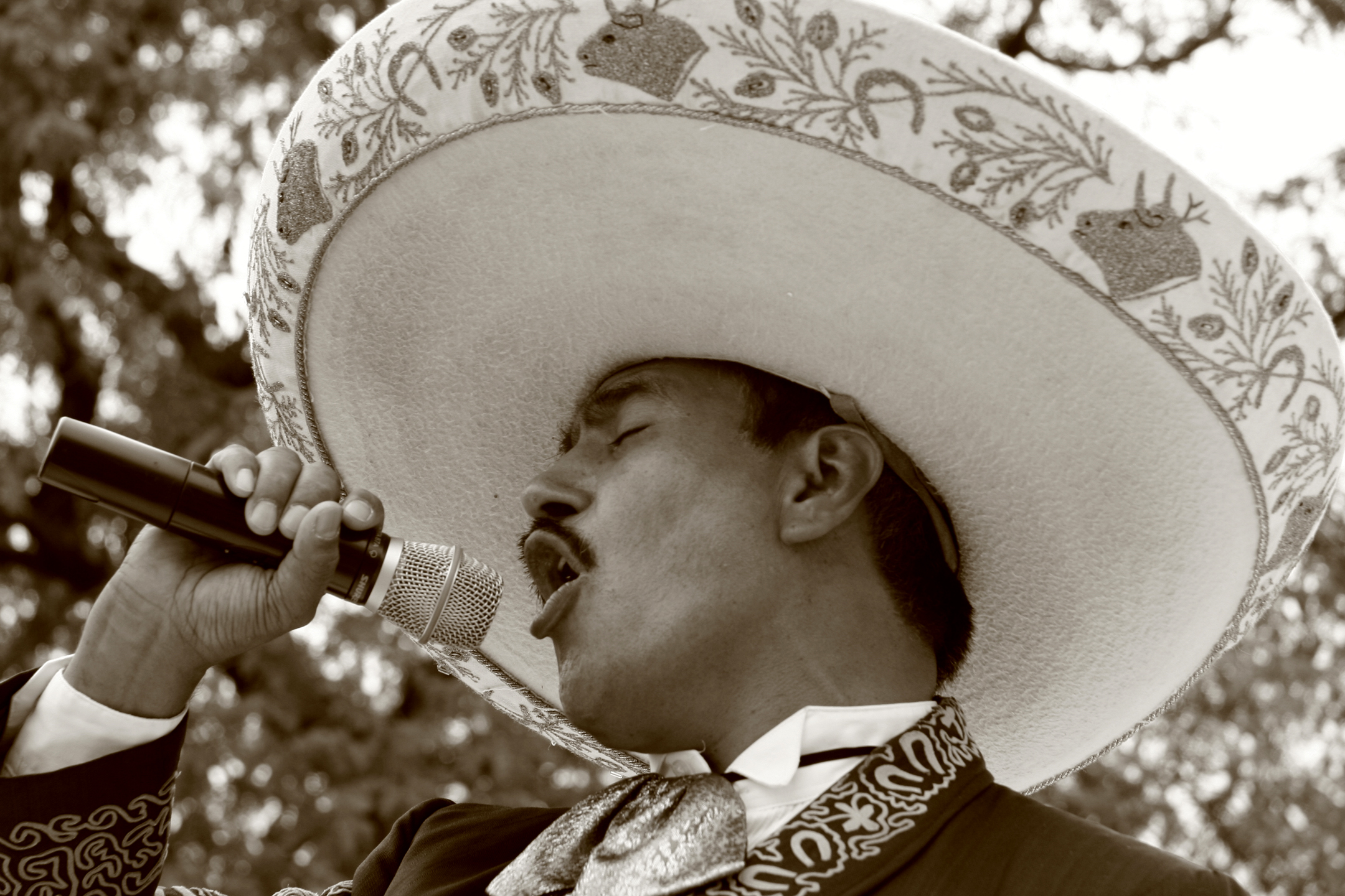 A mariachi singer in Chicago, Illinois, USA.